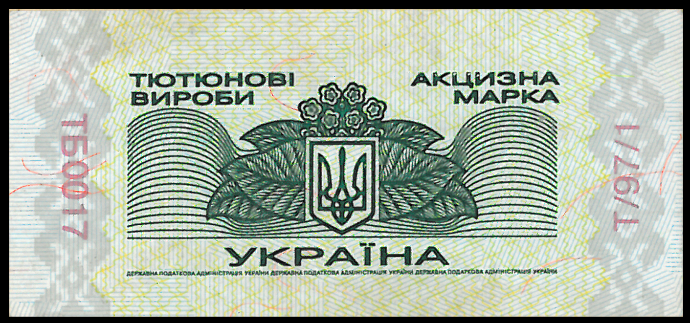 Excise stamp of Ukraine on tobacco products, 1996?